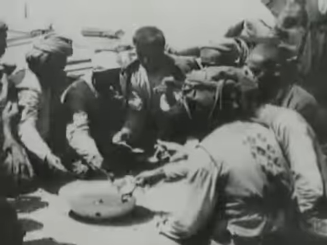 Prisoner-of-war camp in Nargen island